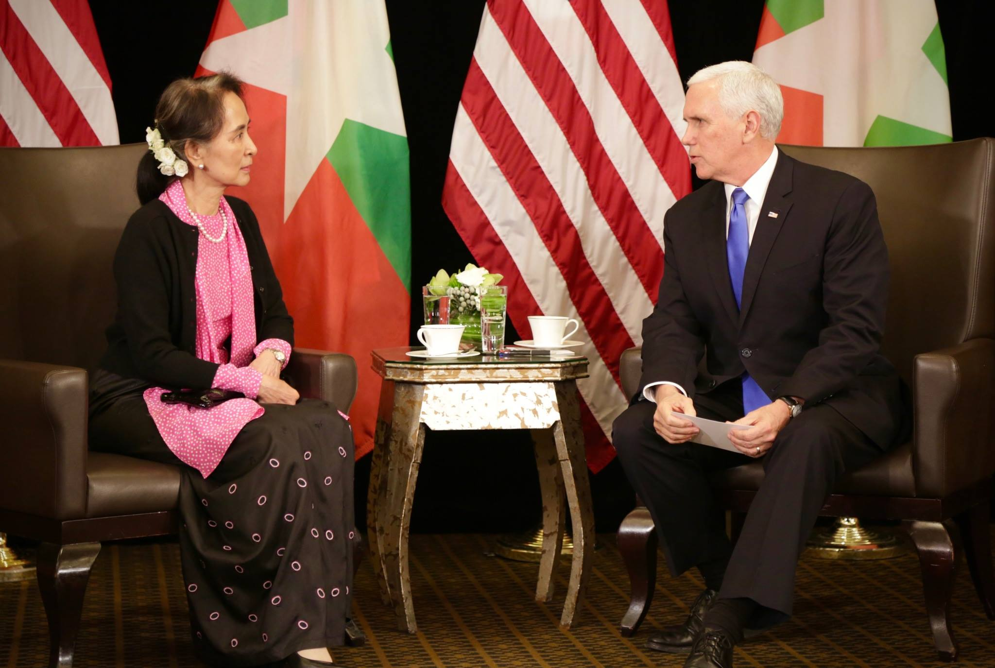 Vice President Mike Pence met with Burmese State Counsellor Aung San Suu Kyi in Singapore before the 33rd ASEAN summit on 14 Nobember 2018